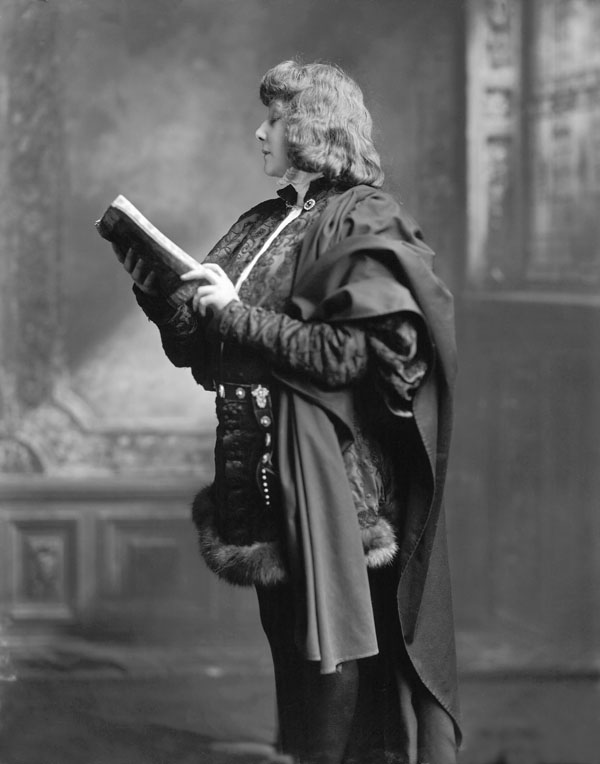 Sarah Bernhardt in the title role of Shakespeare's play Hamlet, in a prose adaptation by Eugène Morand and Marcel Schwob, first performed at the Théâtre Sarah-Bernhardt on 20 May 1899